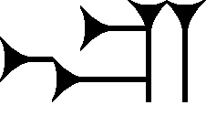 Cuneiform sign. (Common use for zu; also sú.)